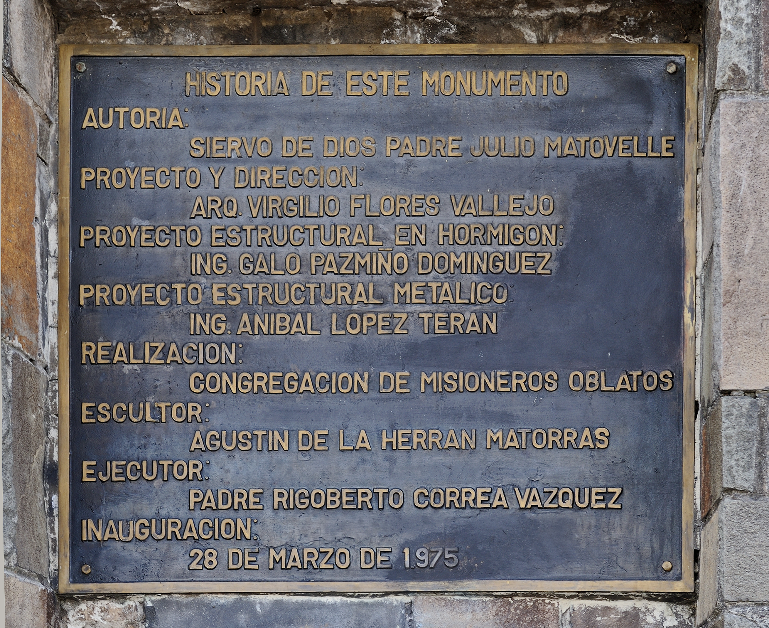 Ecuador, Quito, El Panecillo: plaque with the history of the of monument of the Virgin Mary. Altitude: 2939 m.